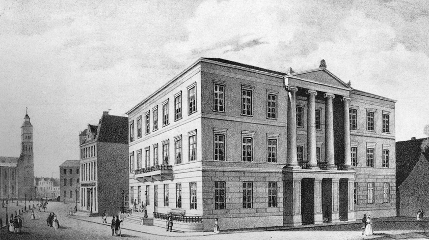 Lithography by F. Meyer showing the Museum at the Domshof place in Bremen, Germany, after the amplification of the building by Jacob Ephraim Polzin in 1838.